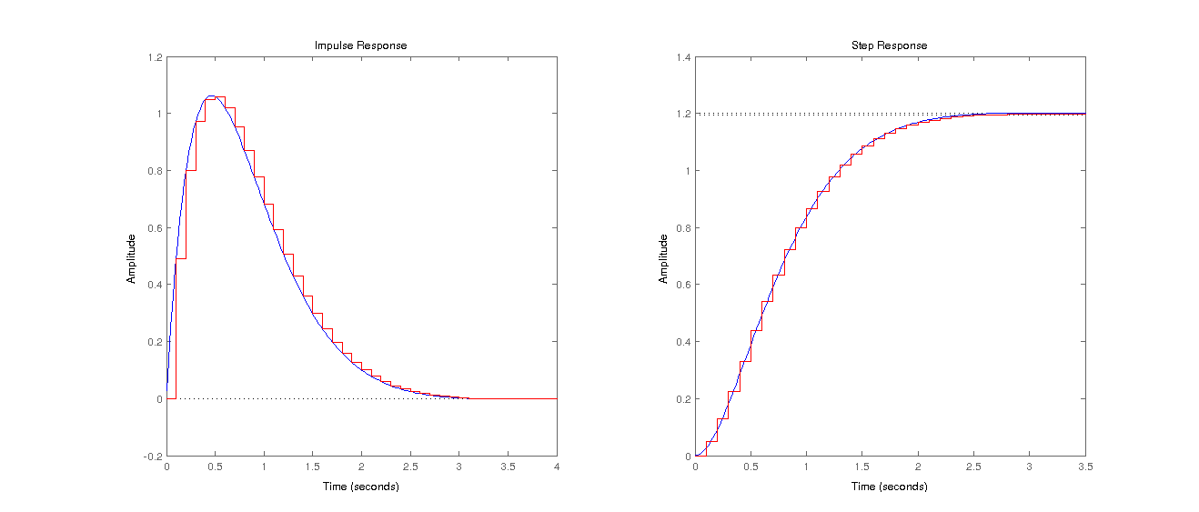 Comparison between an analog filter's impulse and step response and the discretised filter using the impulse invariant transform.